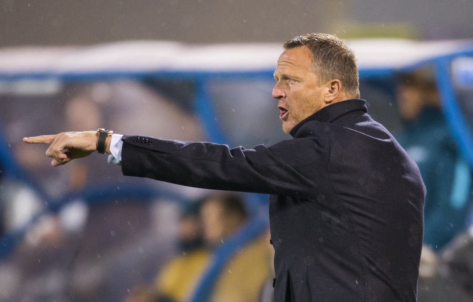 John van den Brom